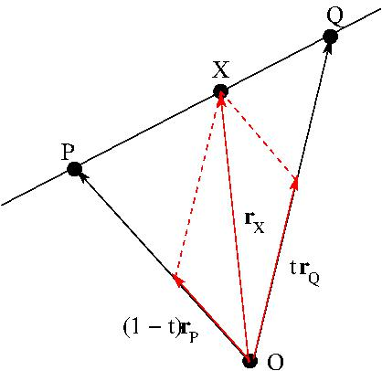 Affine sum of two points points.